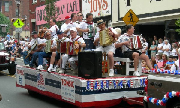 A view from Pike Street in downtown Canonsburg, Pennsylvania on Independence Day for the annual Fourth of July parade.